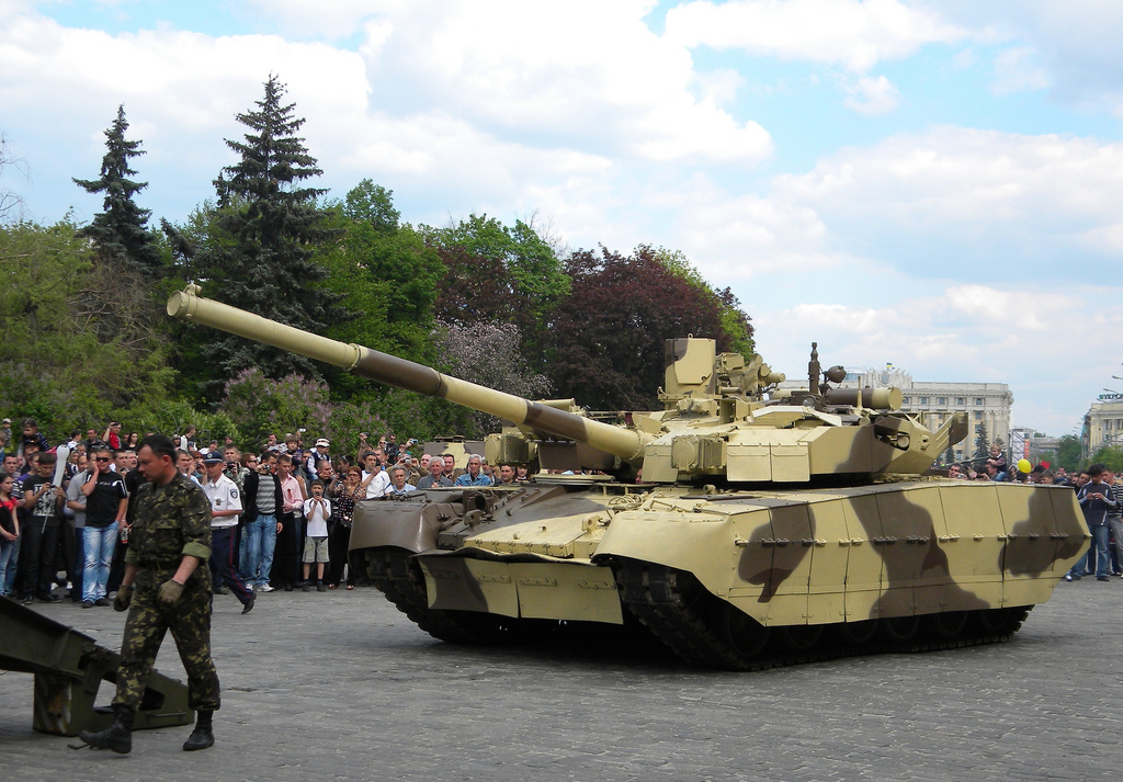 Military warfare exhibition on the VE-Day celebrations, May 9, 2011 Kharkiv, Ukraine. The prototype T-84 BM 'Oplot' ('Bulwark') of Kharkiv tank plant just before to be loaded on the deck of tank trailer. This is newest version of serial T-84 'Oplot' model with additional armor and equipment. It has not been commissioned yet still being in plant's ownership. And it is driven not by army crew but by plant's staff.